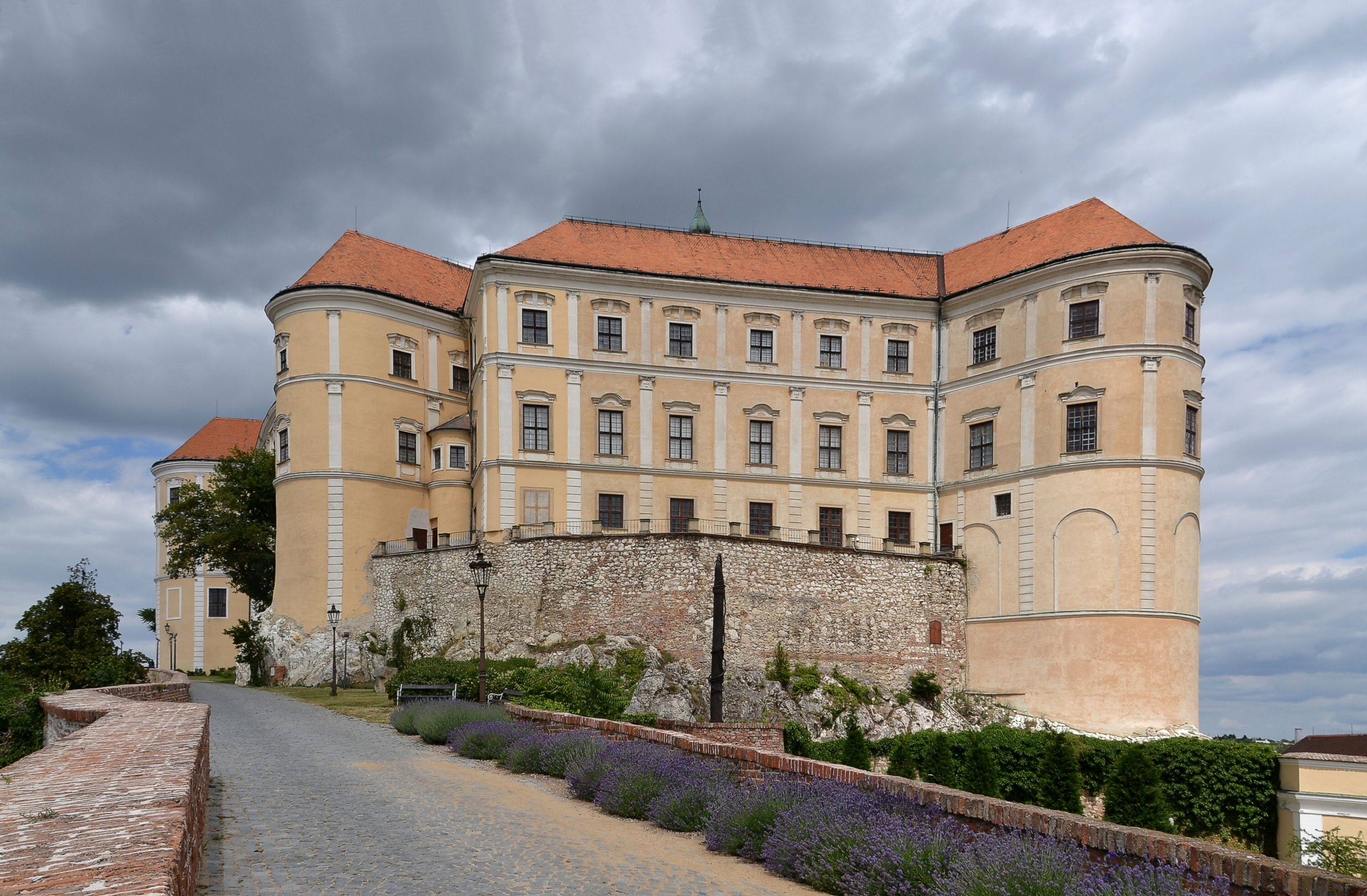 Mikulov (Nikolsburg), Moravia - castle